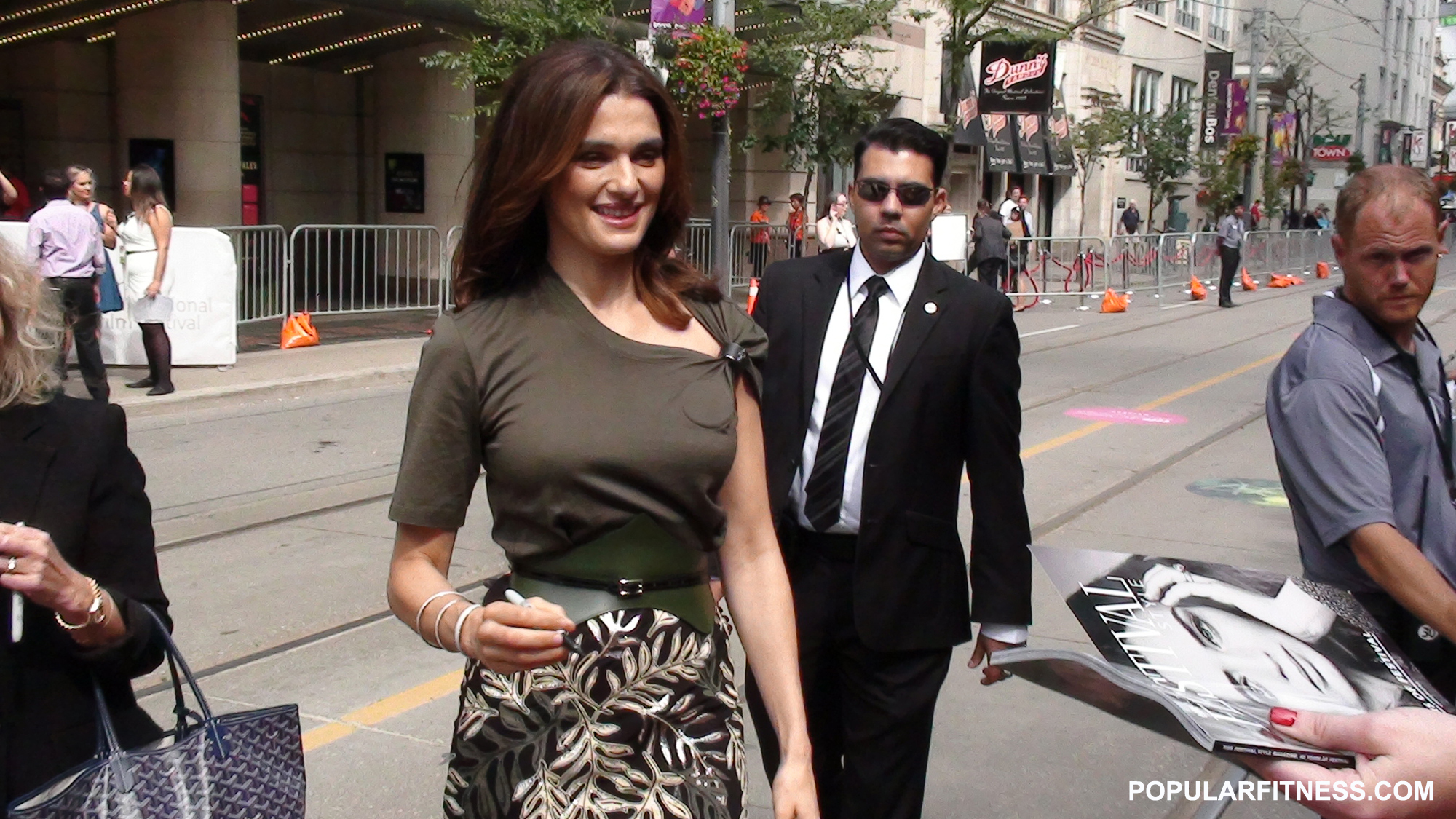 Actress Rachel Weisz at TIFF for the movie The Lobster. Watch video here